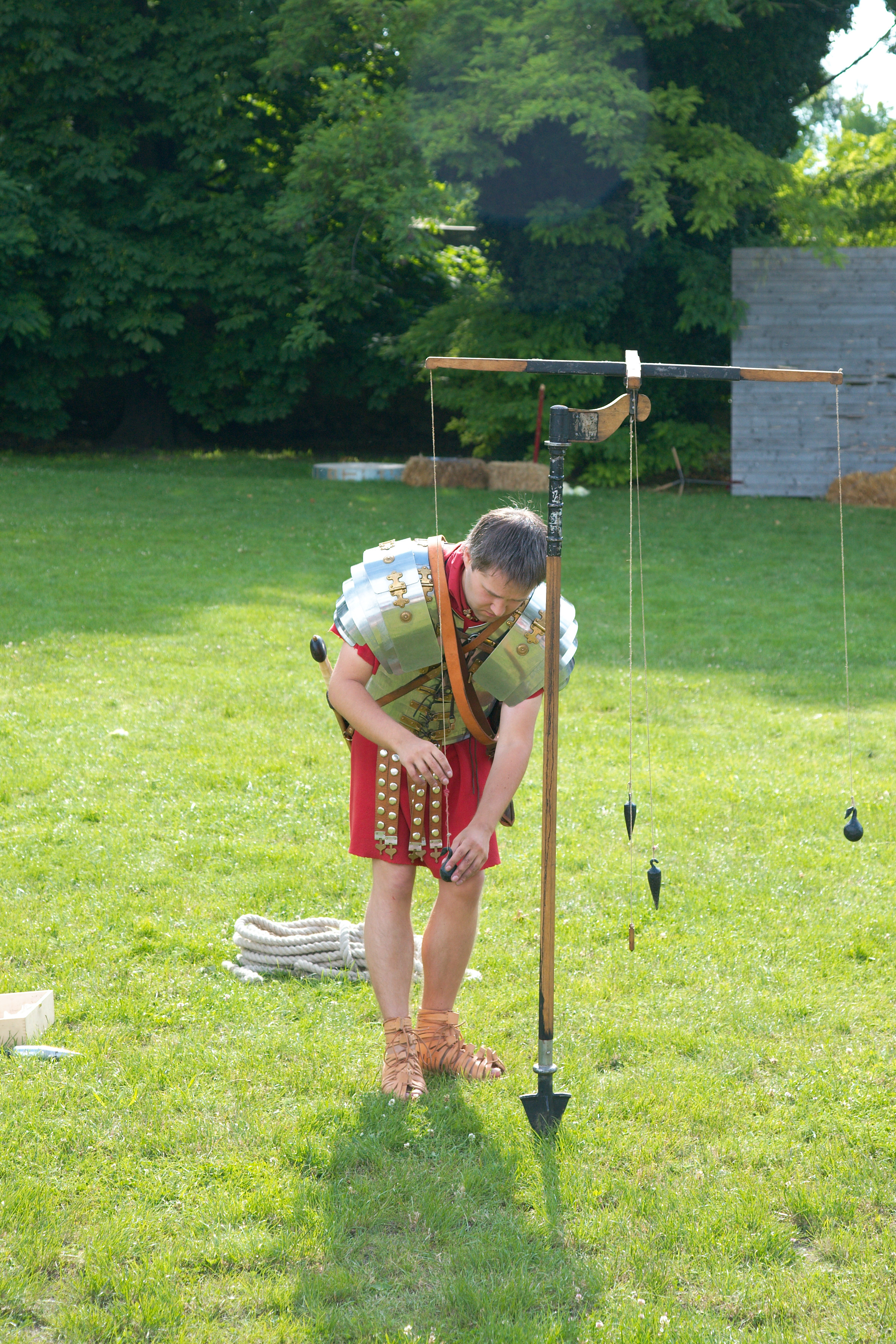 Groma